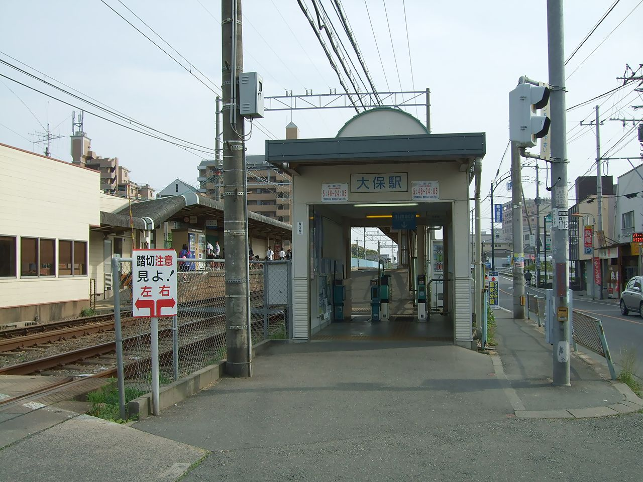 Oho Station, Nishitetsu Tenjin Omuta Line.